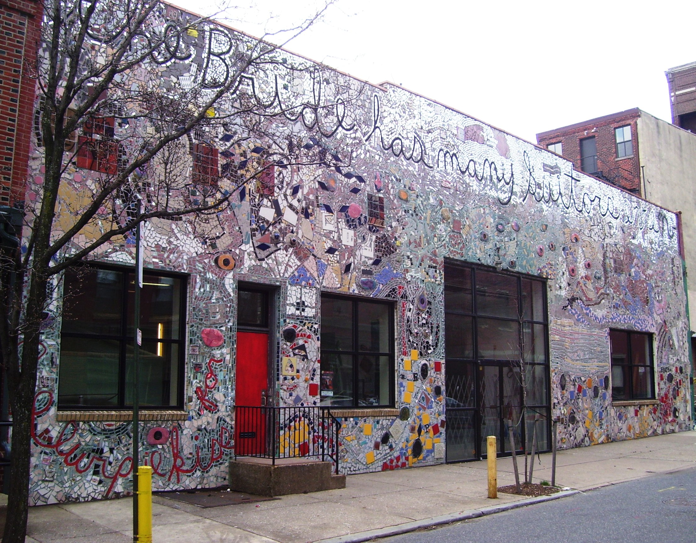 The Painted Bride Art Center at 230 Vine Street between 2nd and 3rd Streets in the Old City neighorhood of Philadelphia, Pennsylvania was founded in 1969 as an artist-centered performance space and gallery particularly oriented to presenting the work of local artists. It presents dance, jazz, world music, visual arts, theatre and performance art. The outside of the building the Bride is located in is completely covered by Skin of the Bride, a mosaic by Philadelphia artist Isaiah Zagar, which he created between 1991 and 2000 and donated to the center. (Sources: "History and Mission" on the Painted Bride Art Center website and plaque located on the northeast corner of the front of the building) This image shows the front of the bulding on Vine Street from the east.